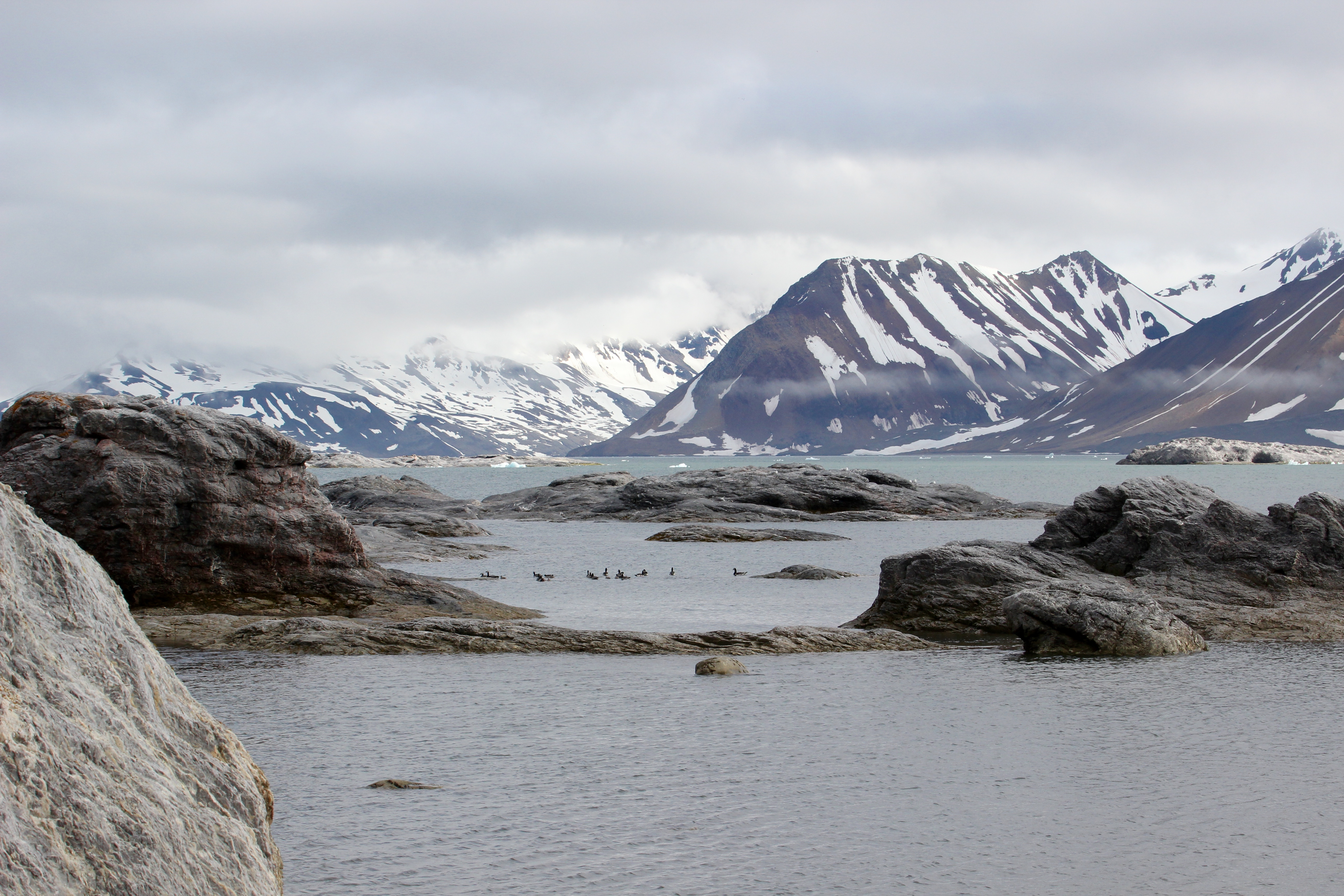 Pictures taken on my Silversea Silver Explorer Arctic cruise. For more on the cruise and dates visit bit.ly/ArcticCruise